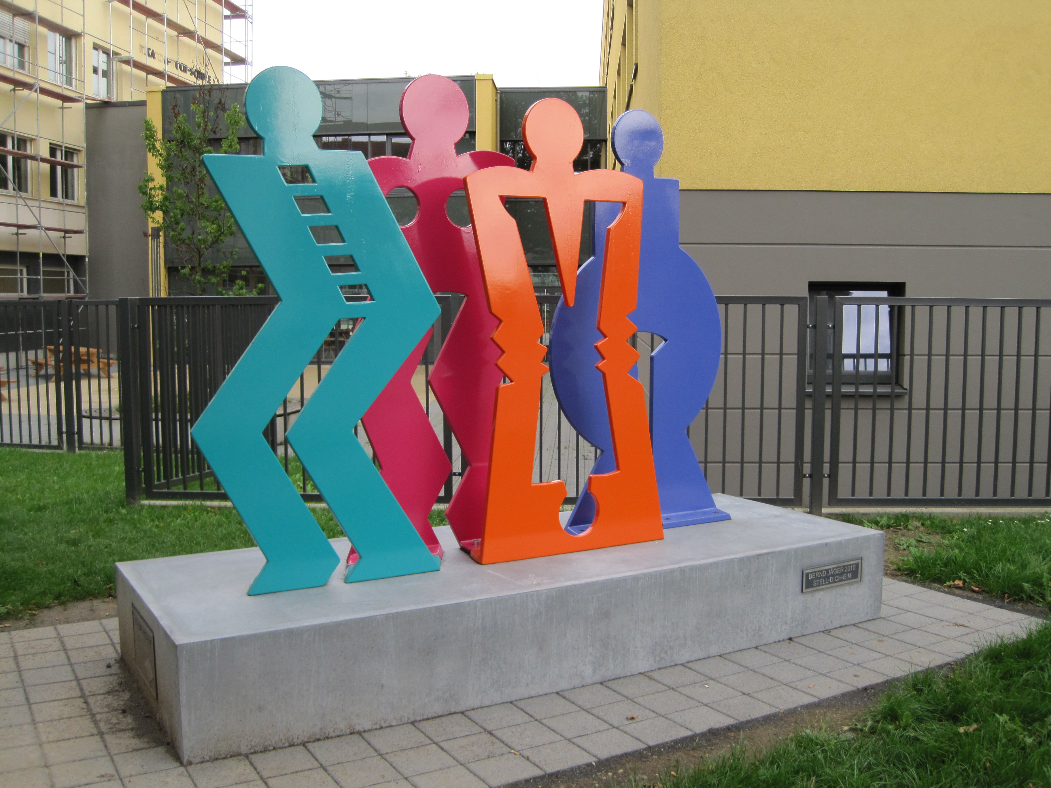 Stell-Dich-Ein by Bernd Jäger, Gießen, Germany check usage